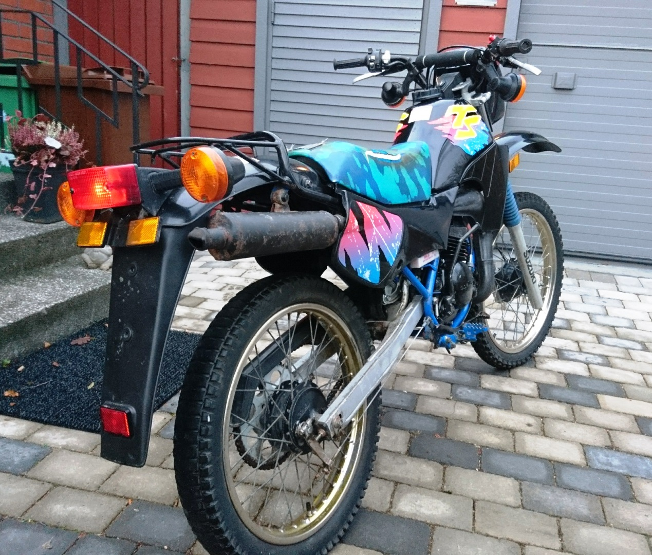 Picture on a black Suzuki TS50